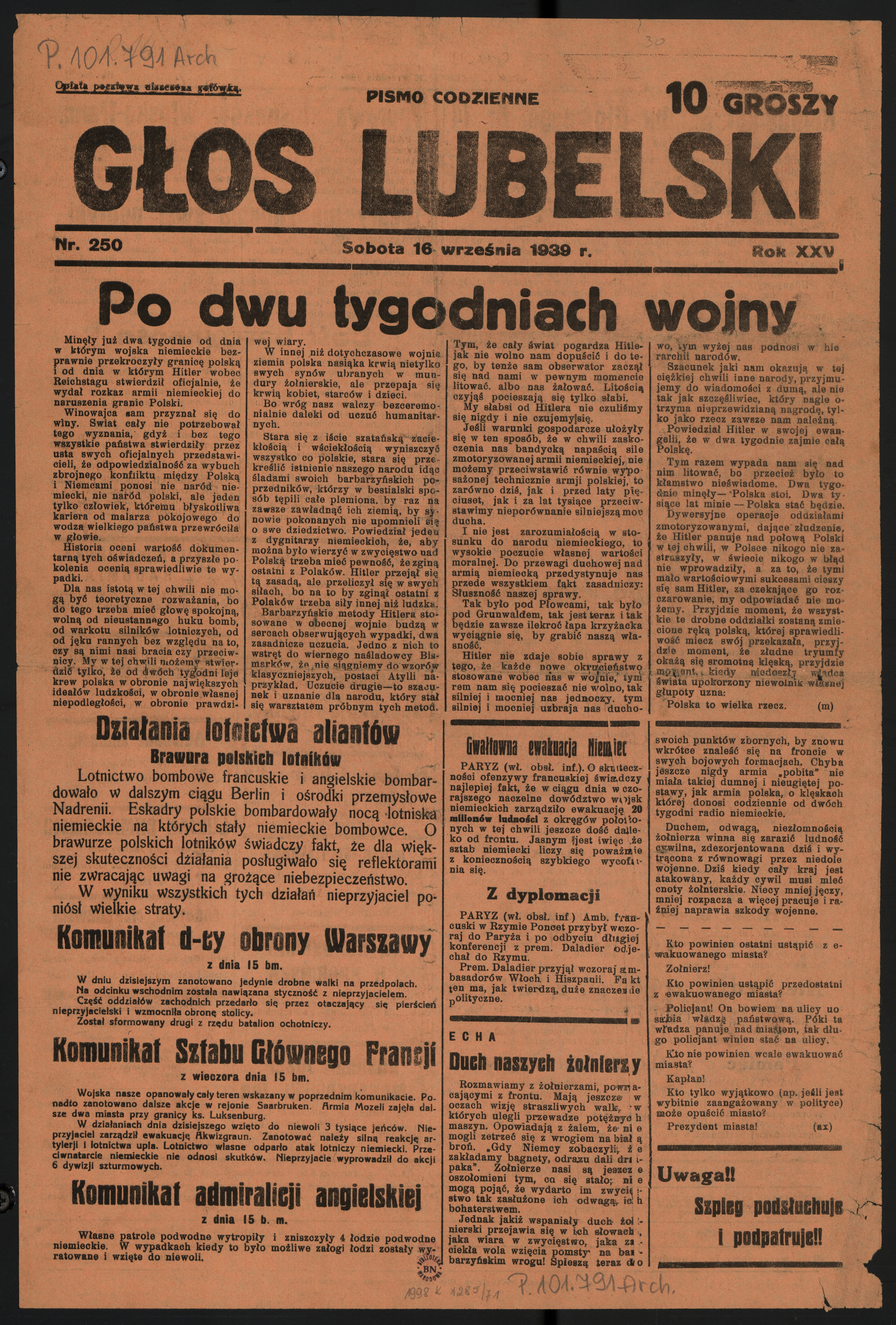 Newspaper title of daily news Głos Lubelski nr 250 (16 september1939) high 43 cm in polish language next day the publishing ended because of the war